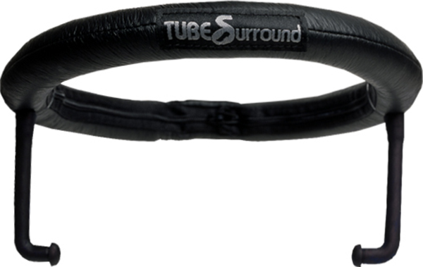 TubeSurround Headphone invented by Yul Anderson